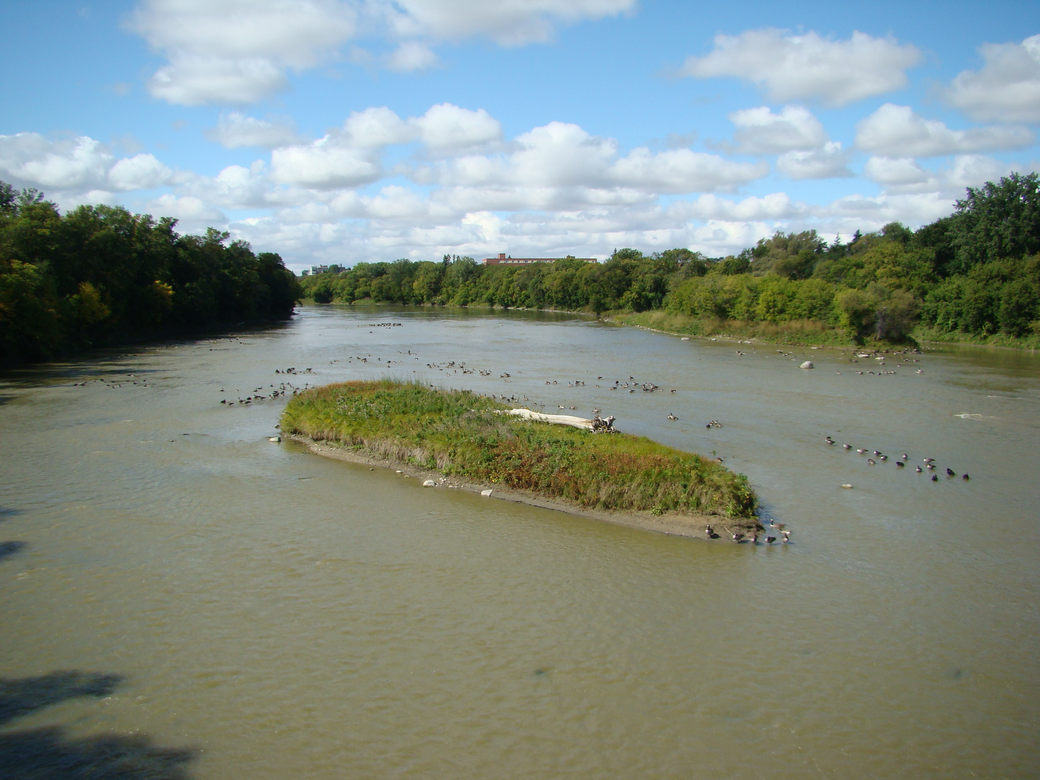 Assiniboine Park Winnipeg Manitoba Canada